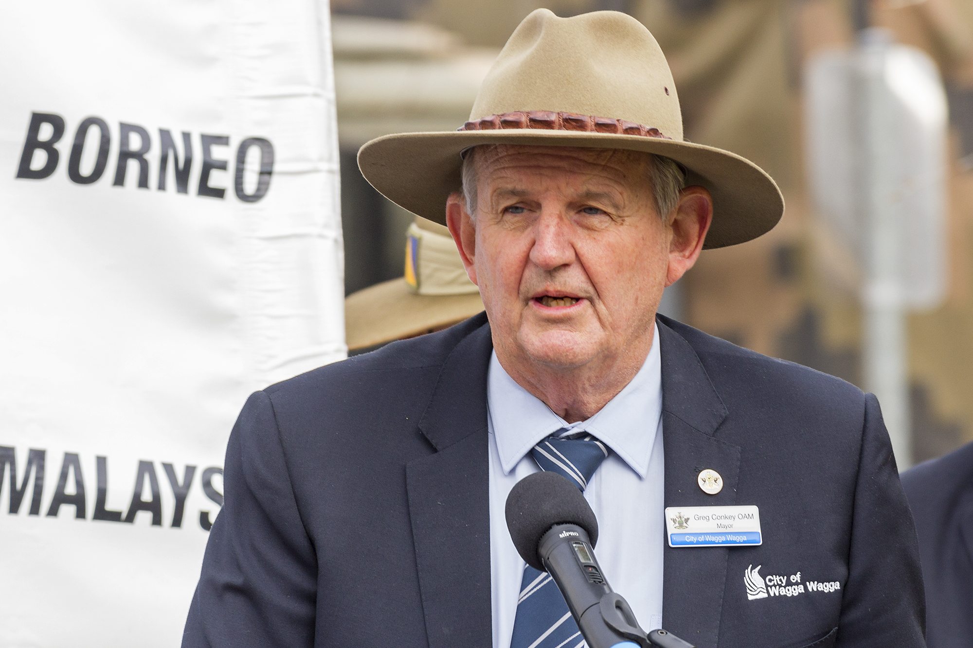 Mayor of the City of Wagga Wagga, Greg Conkey speech at the 2018 Reserve Forces Day commemorative service.